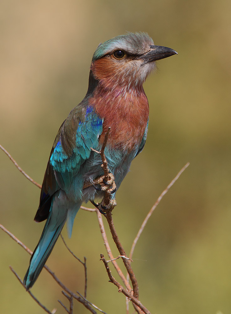 A young Lilac-breasted roller which has yet to grow its tail filaments. Image taken in Samburu NP, Kenya.